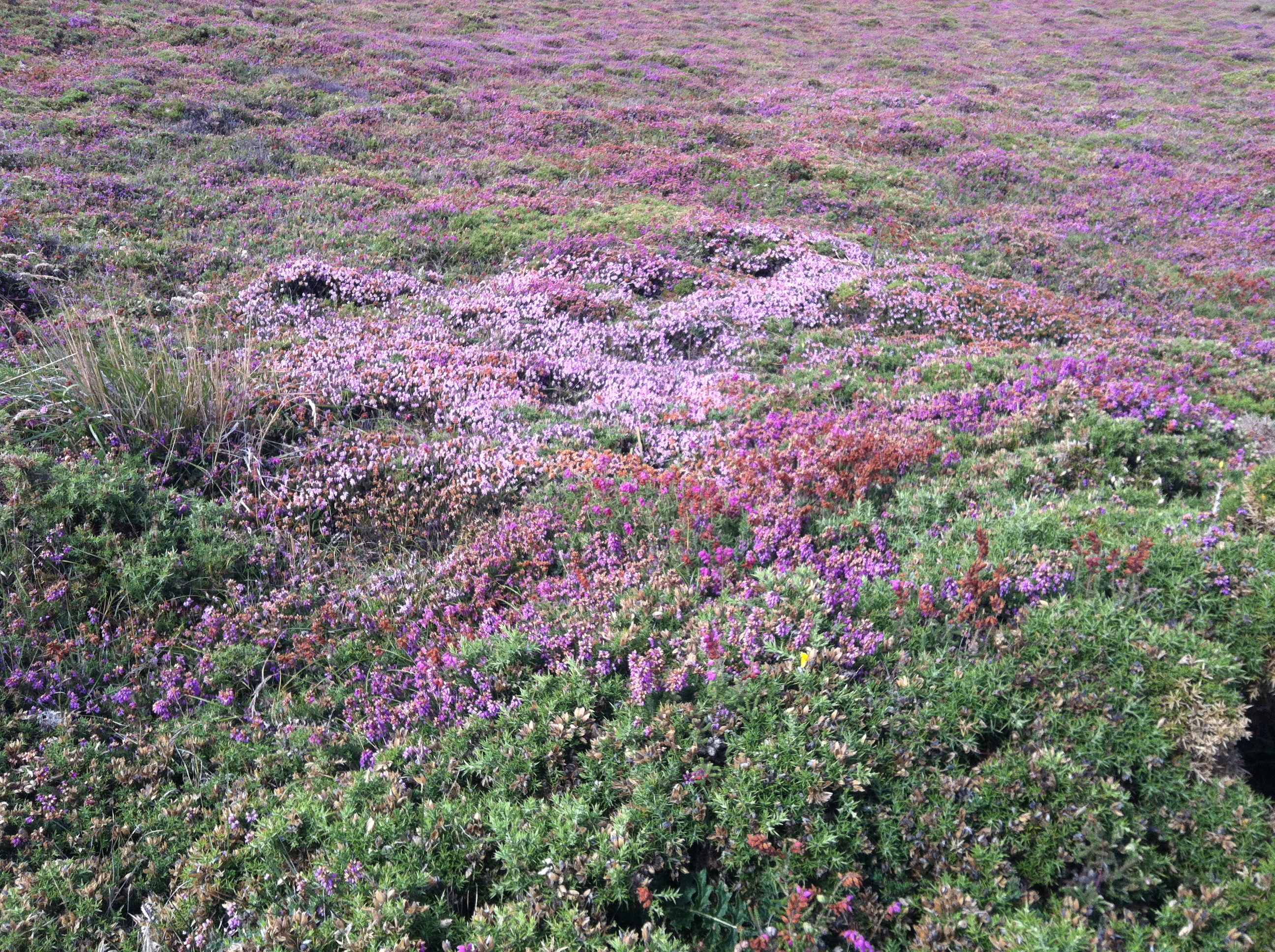 Different species of heather in the region of Ortegal (Galicia, Spain).